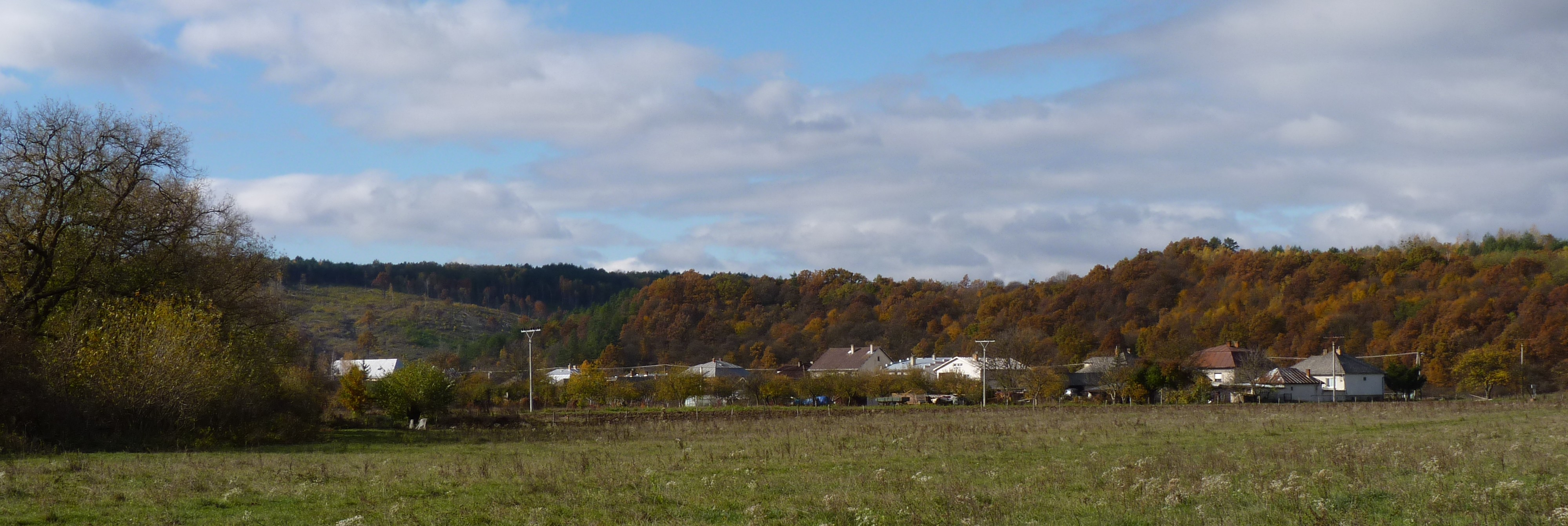 Autumn panorama from the upper end of the village Vyšný Hrušov.